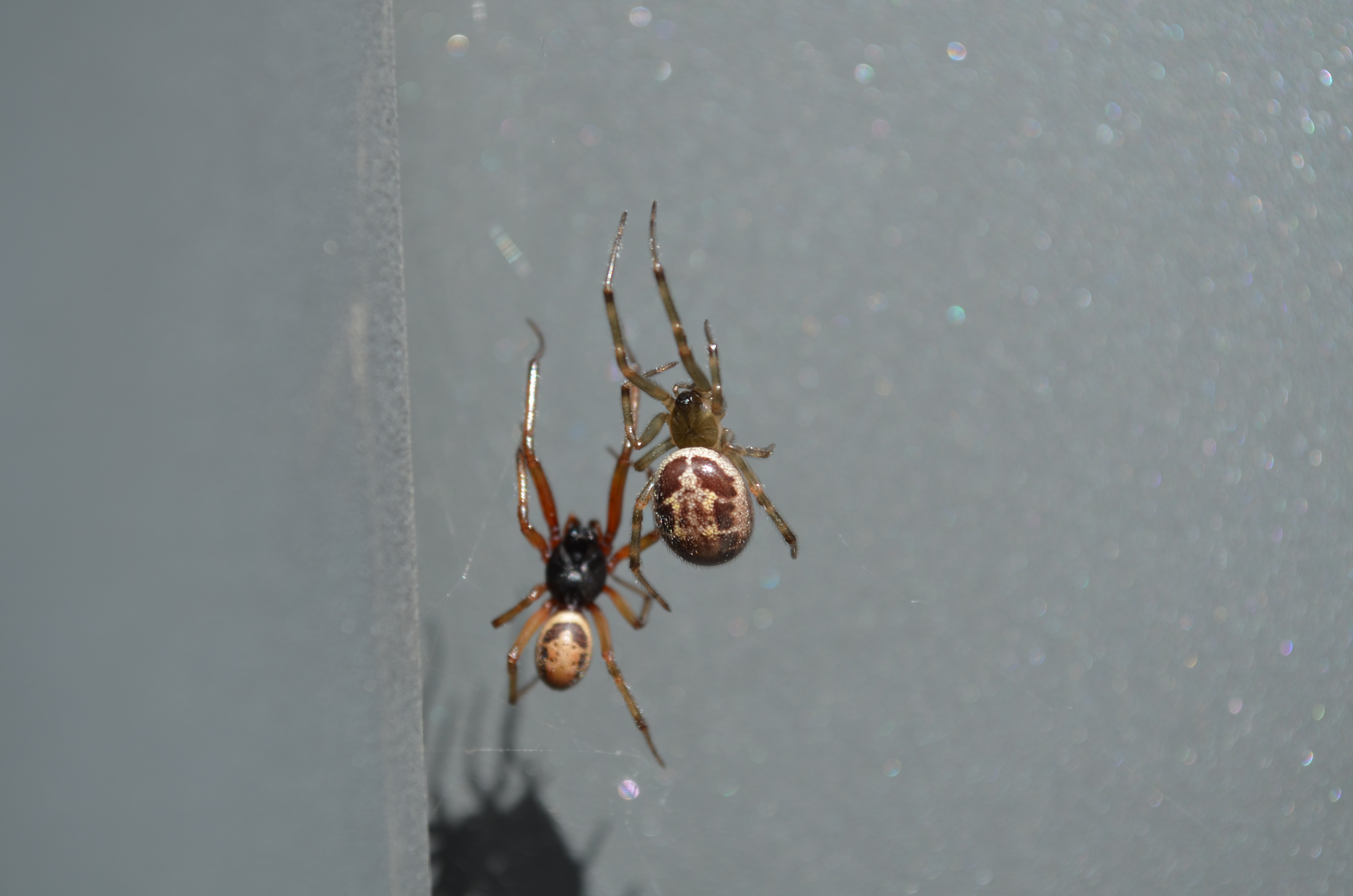 Two spiders (male and female?)